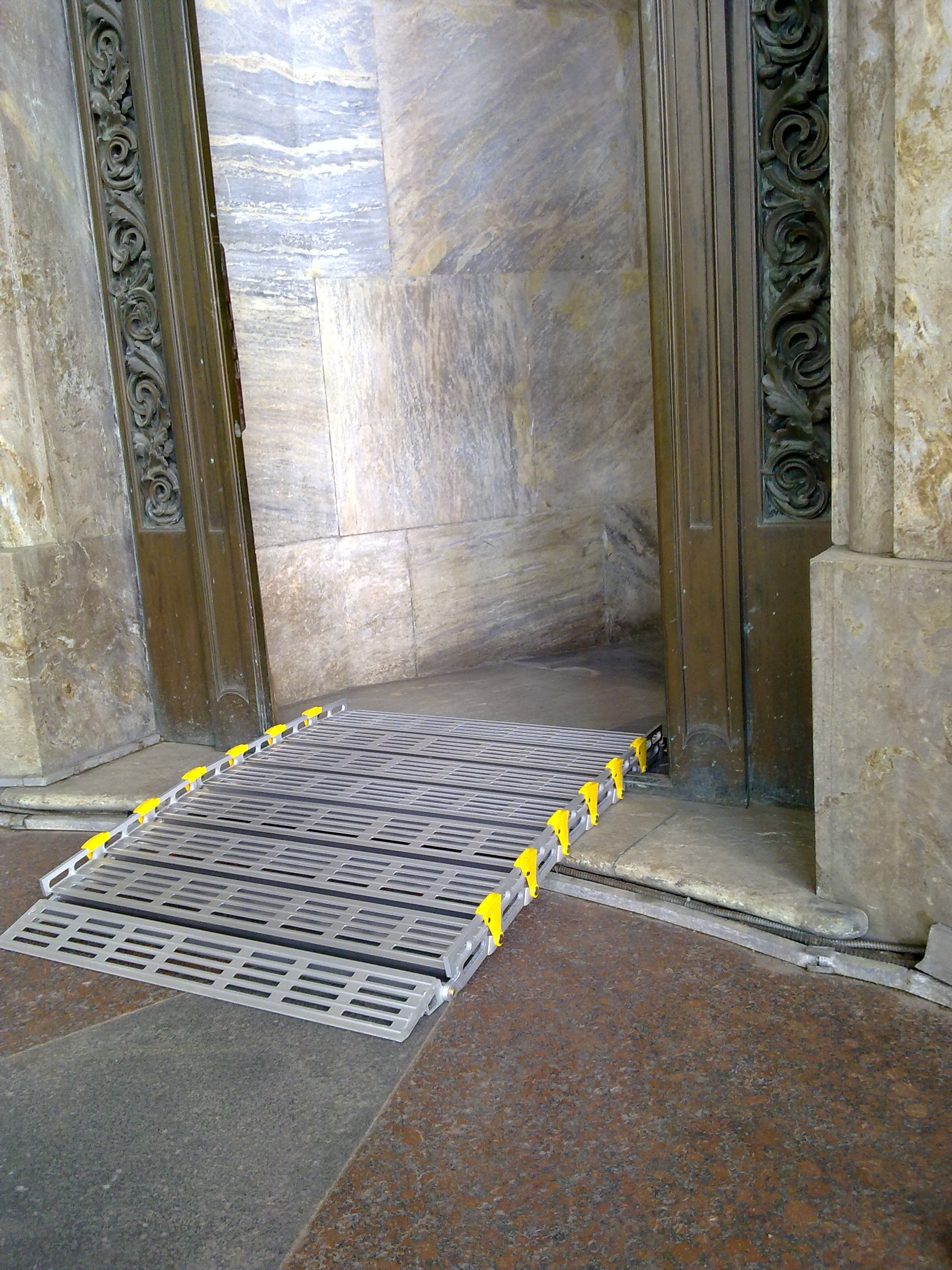 роллопандус